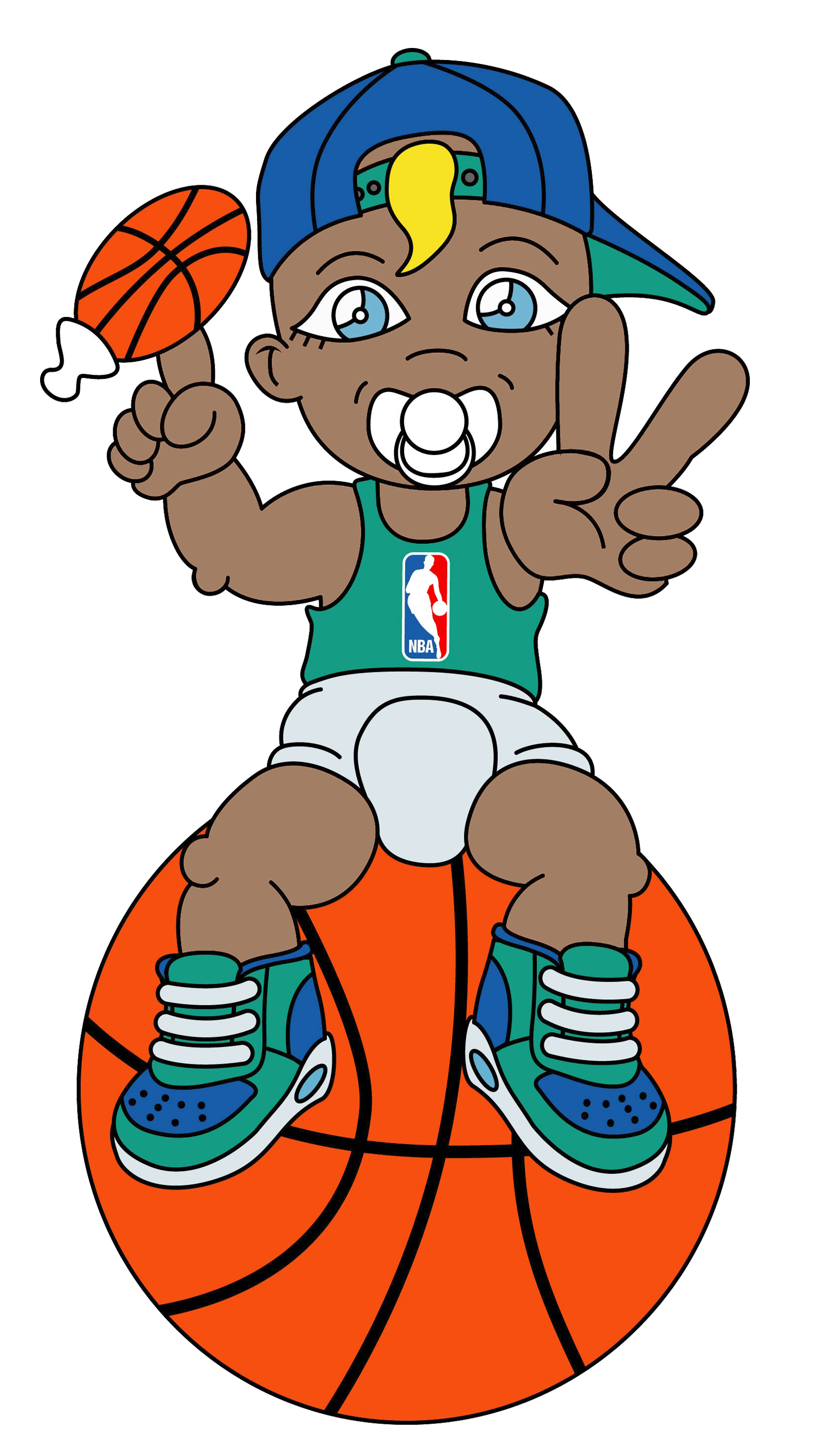 This baby is a part of Madison Color universe.